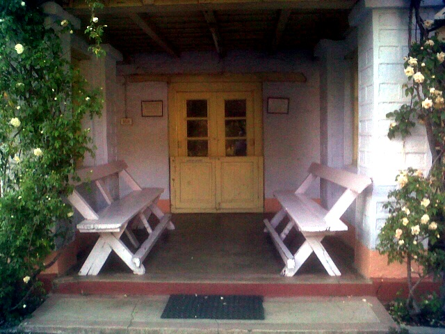 Rest house of Vivekananda In the Ashrama